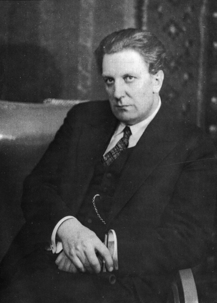 Photograph of the Finnish composer and pianist Ernst Linko (1889–1960).